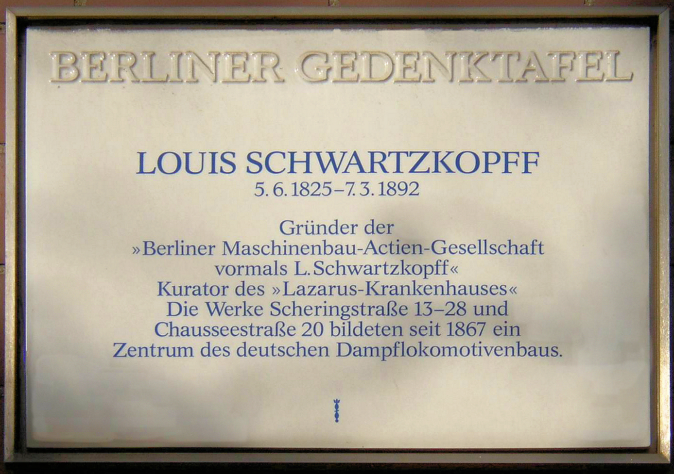 Berlin memorial plaque, Louis Schwartzkopff, Scheringstraße 2, Berlin-Gesundbrunnen, Germany Koordinate:52°32′30″N 13°22′53″E / 52.54167°N 13.38139°E